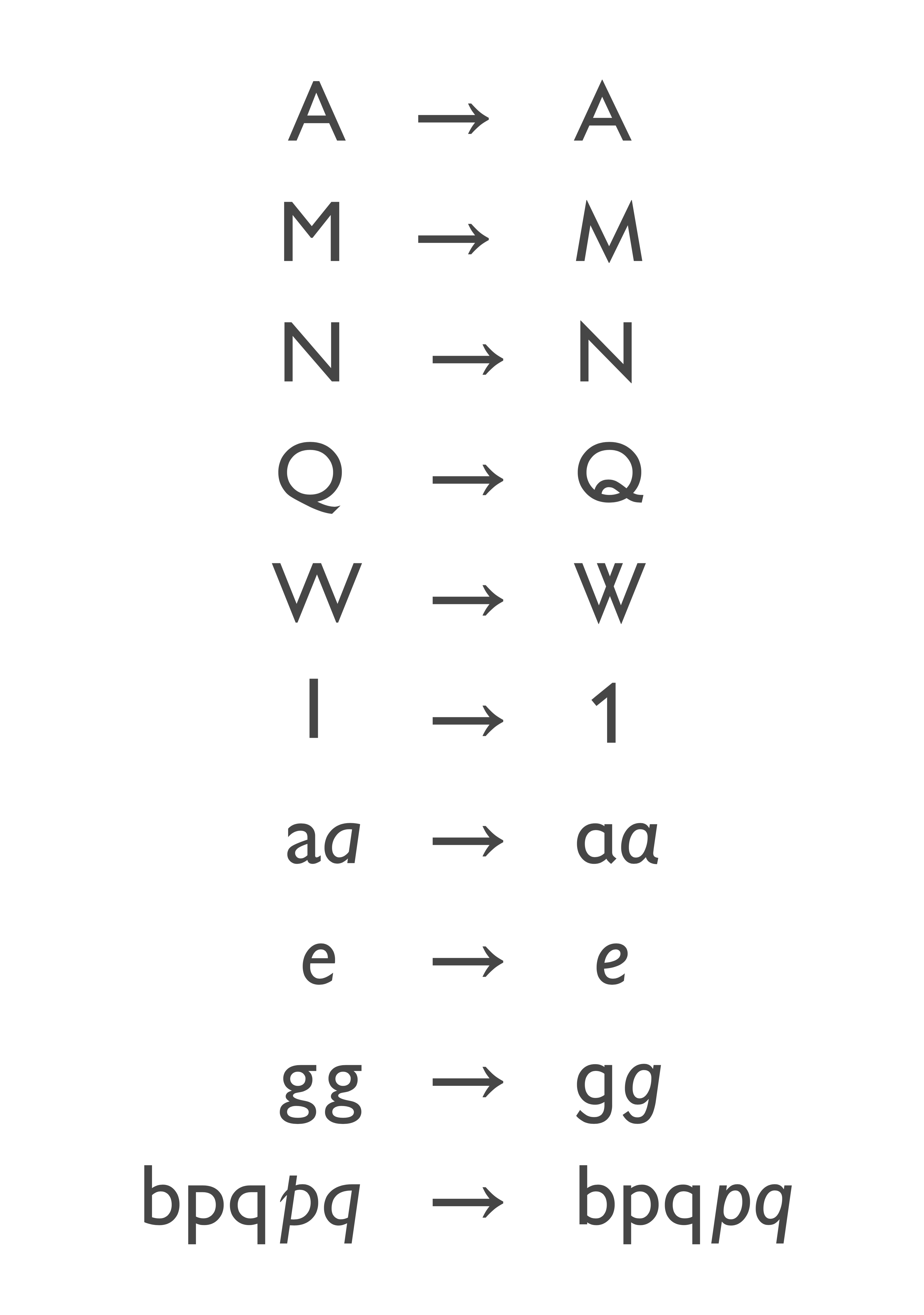 Alternate characters from Gill Sans Nova, most or all (possibly not all the bdpq variants) based on those offered in the metal type era. That image does show several not digitised, like a Futura-style 't' and an oblique 'a'.